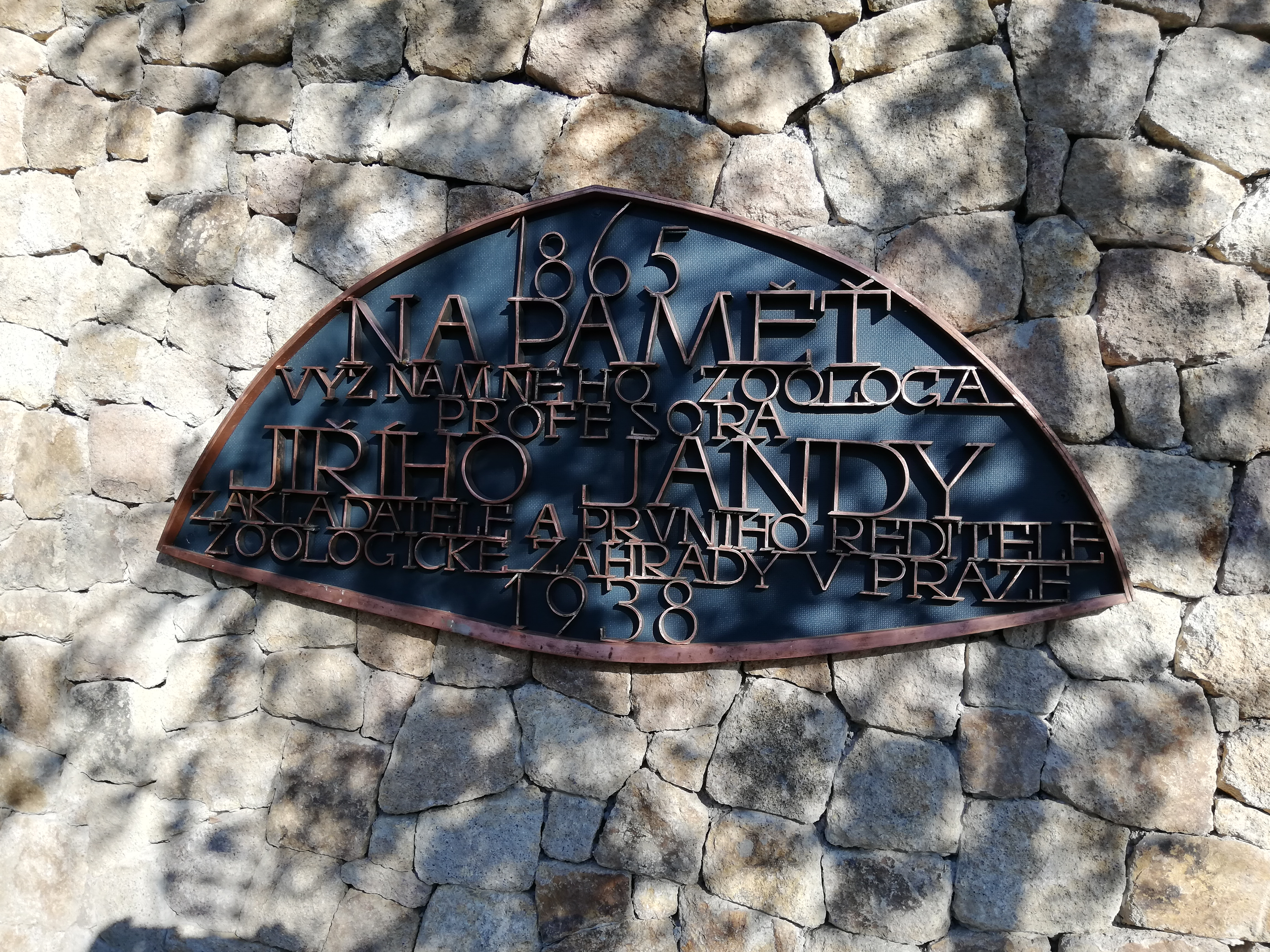 Jiří Janda (born April 24, 1865, Prague-Mala Strana - August 25, 1938, Prague-Mala Strana) was a high school professor, ornithologist, founder of the Prague Zoo and first chairman of the Czechoslovak Ornithological Society. Mamorial Plaque is placed in the Prague Zoo.